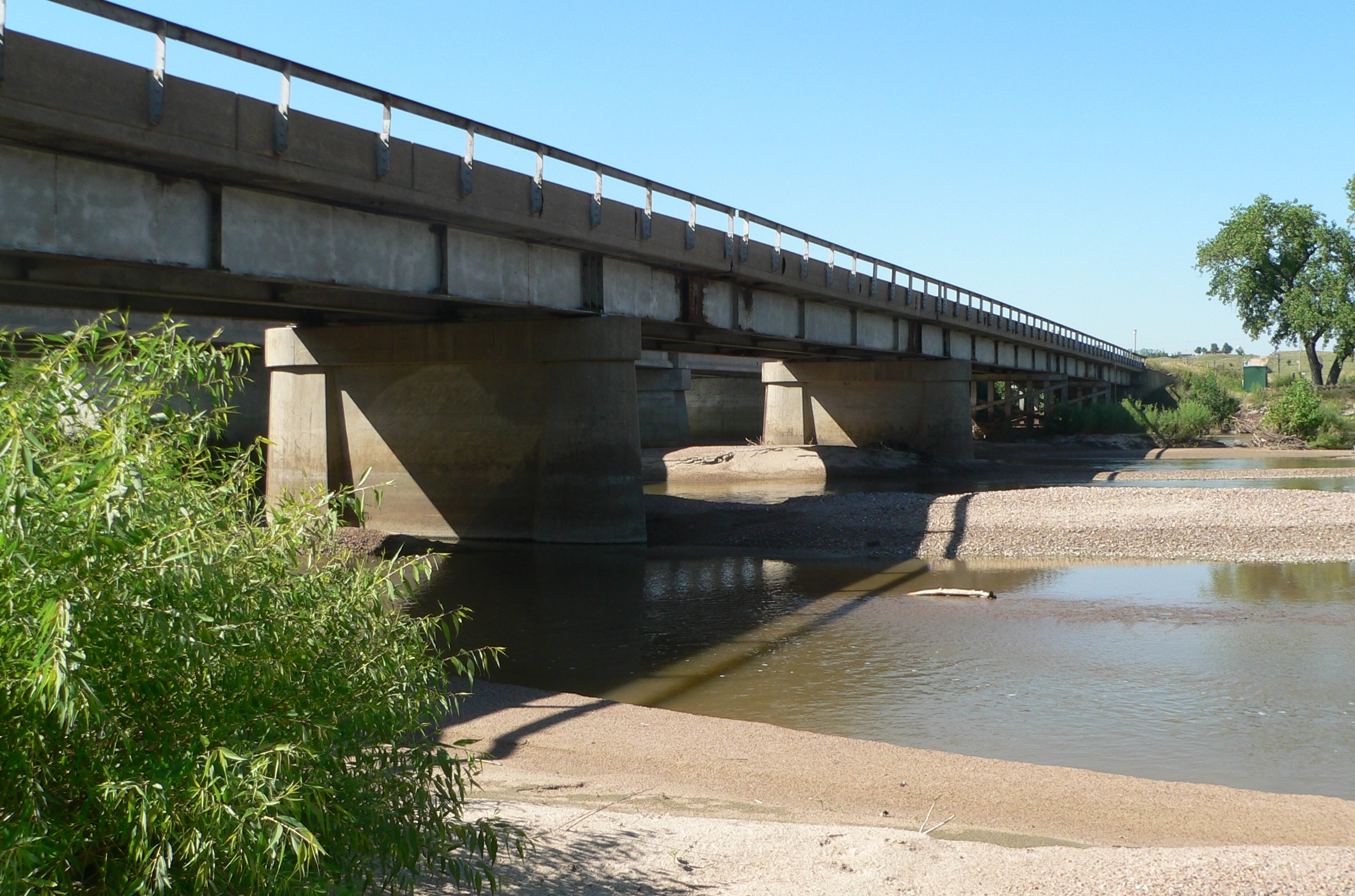 Roscoe State Aid Bridge, crossing the South Platte River southeast of Roscoe, Nebraska. Camera is facing north-northwest; upstream is west (left). The bridge is no longer open to traffic; piers of the current bridge are visible behind the old one.